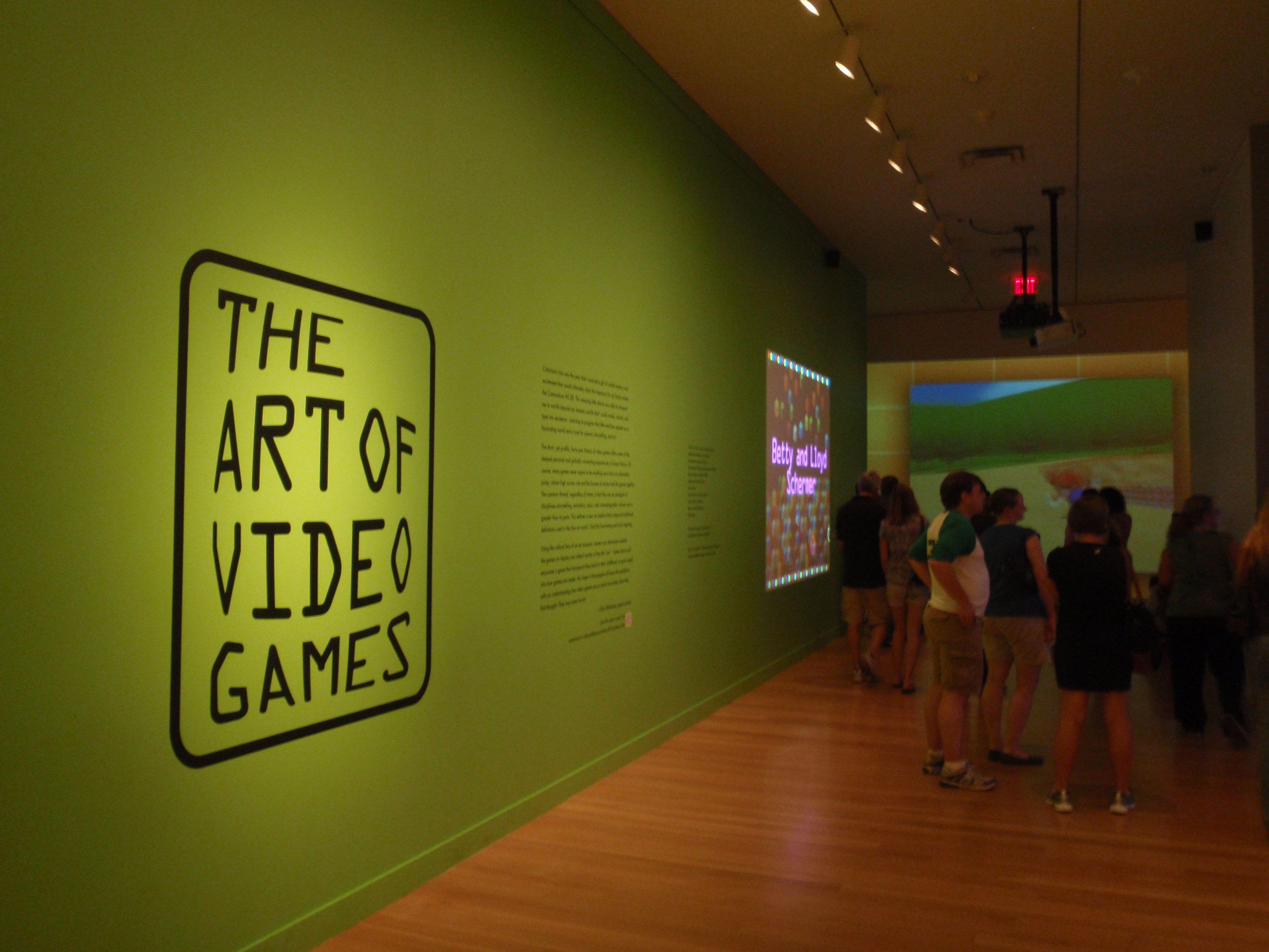 National Portrait Gallery